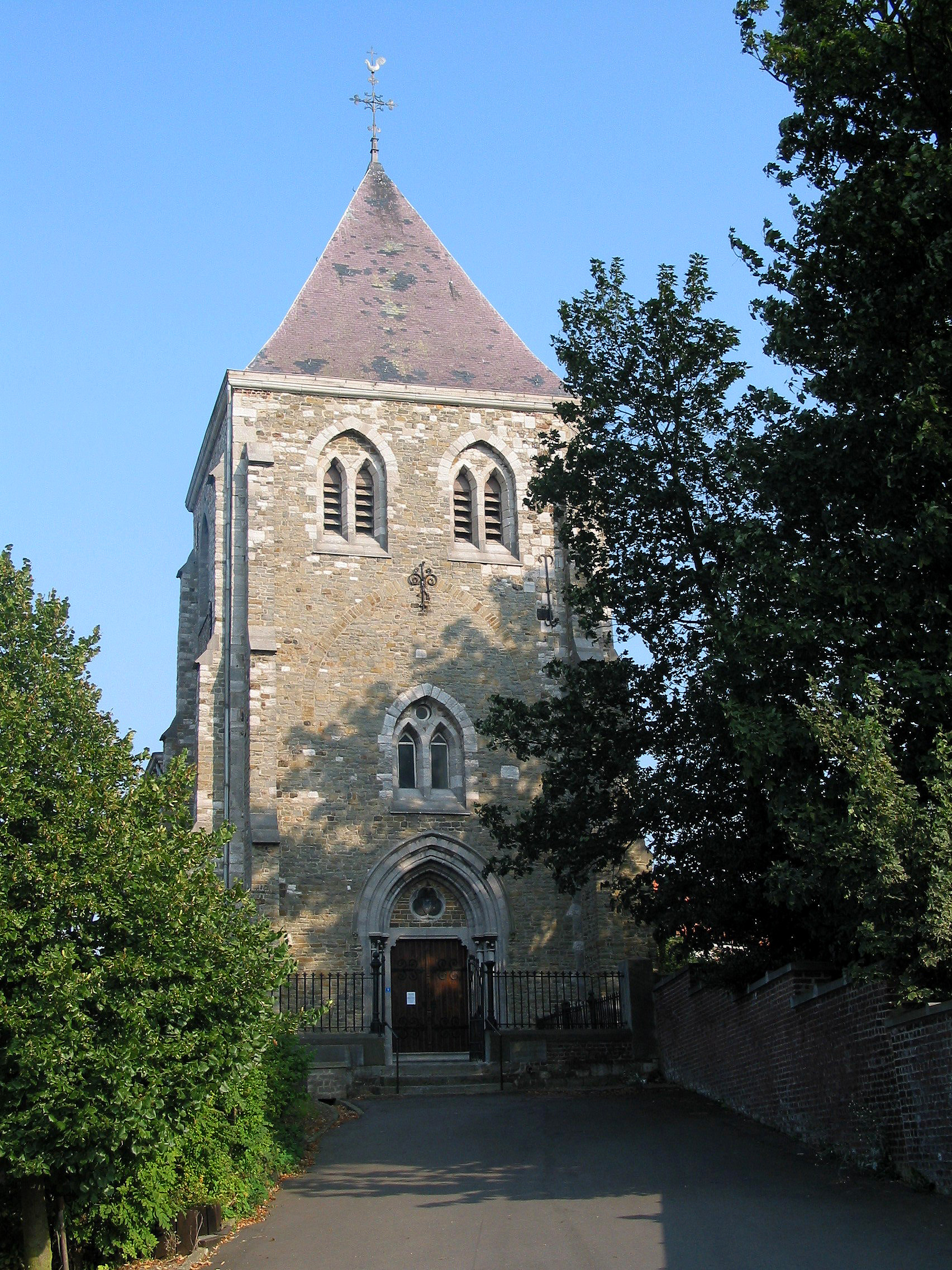 Fexhe-le-Haut-Clocher (Belgium), the St. Martin's church (XII/XVIIth centuries).